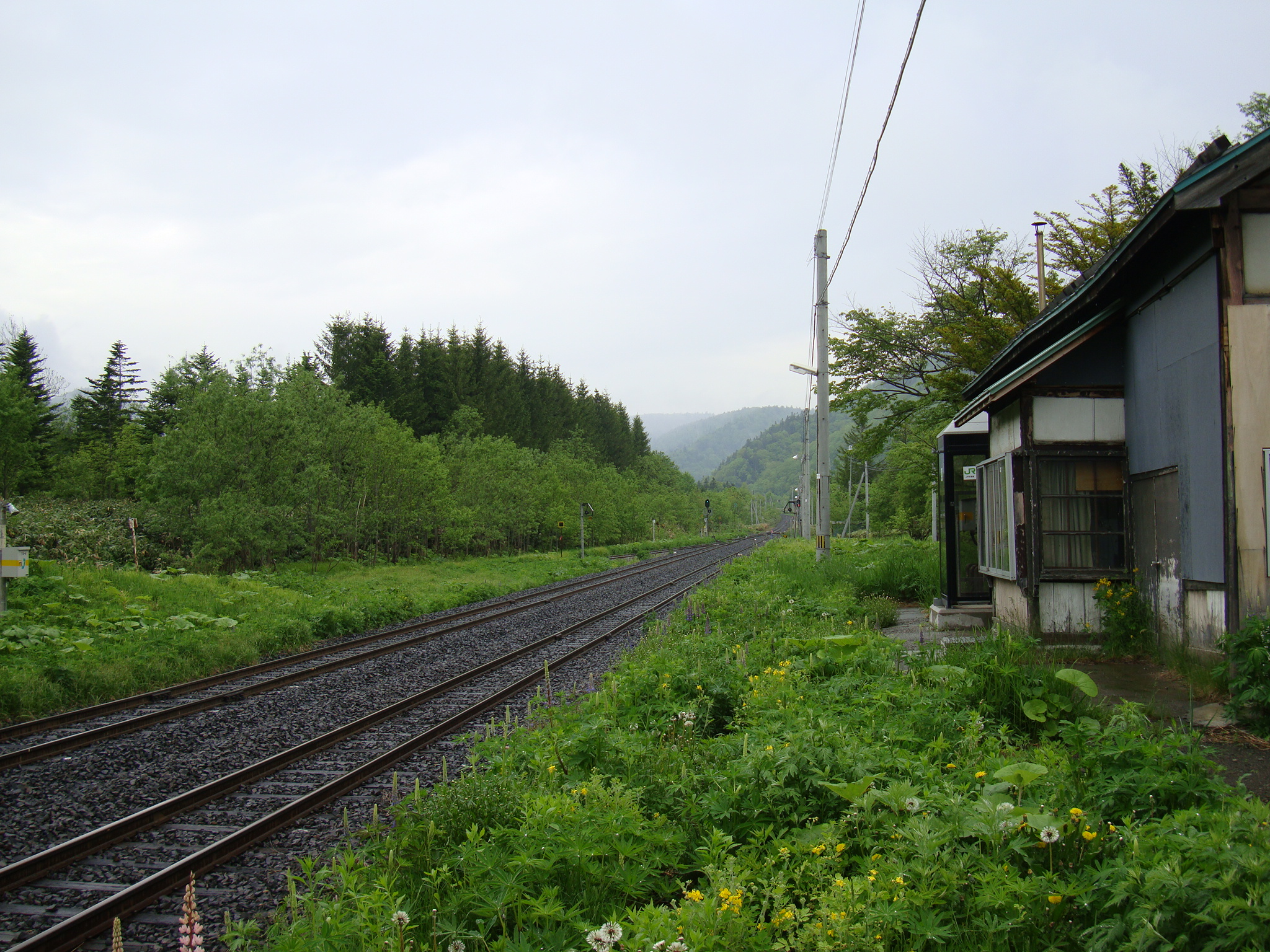 Oku-Shirataki Signal Base